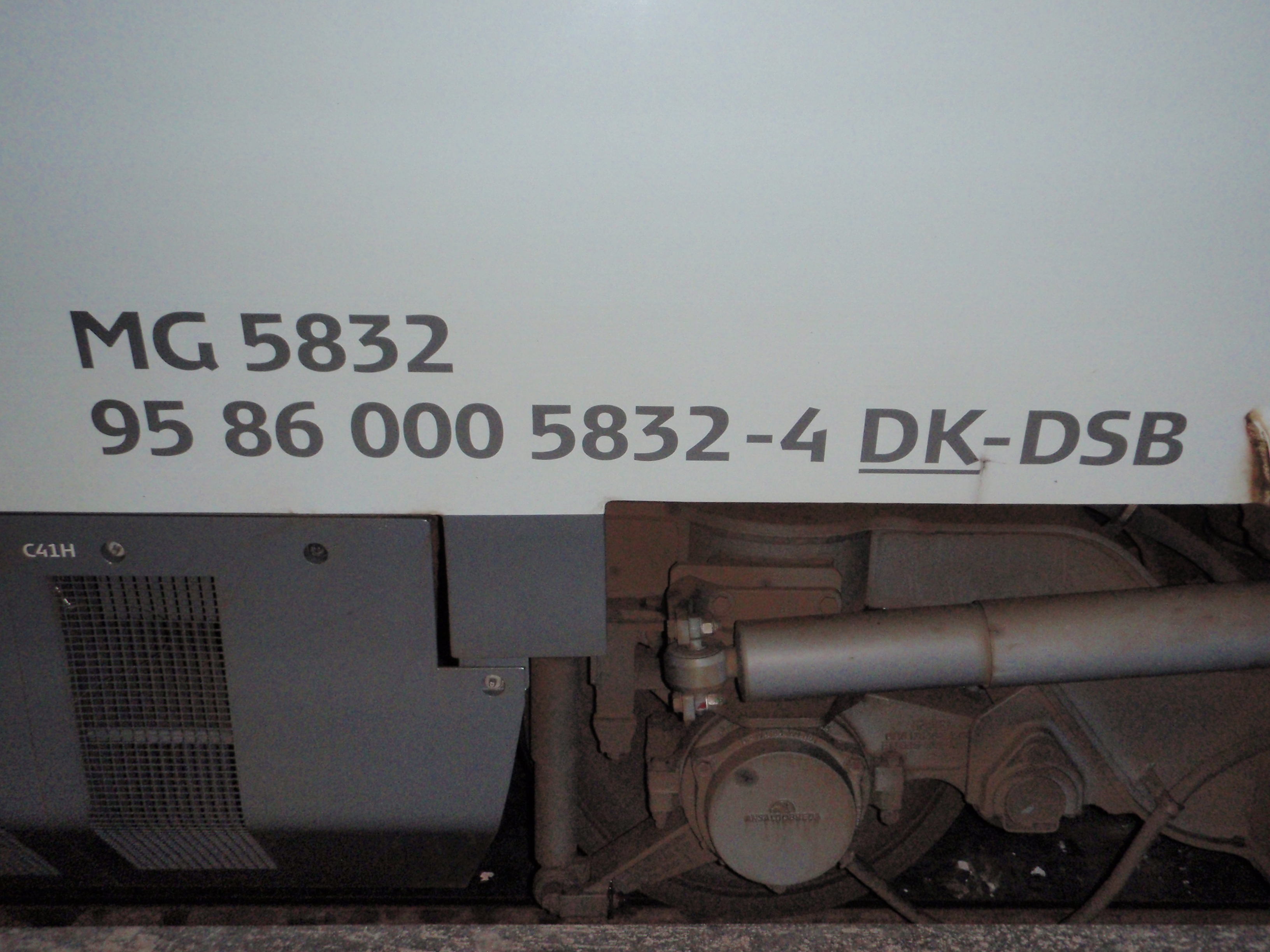 IC4 MG 5832 bogie and TSI vehicle register no